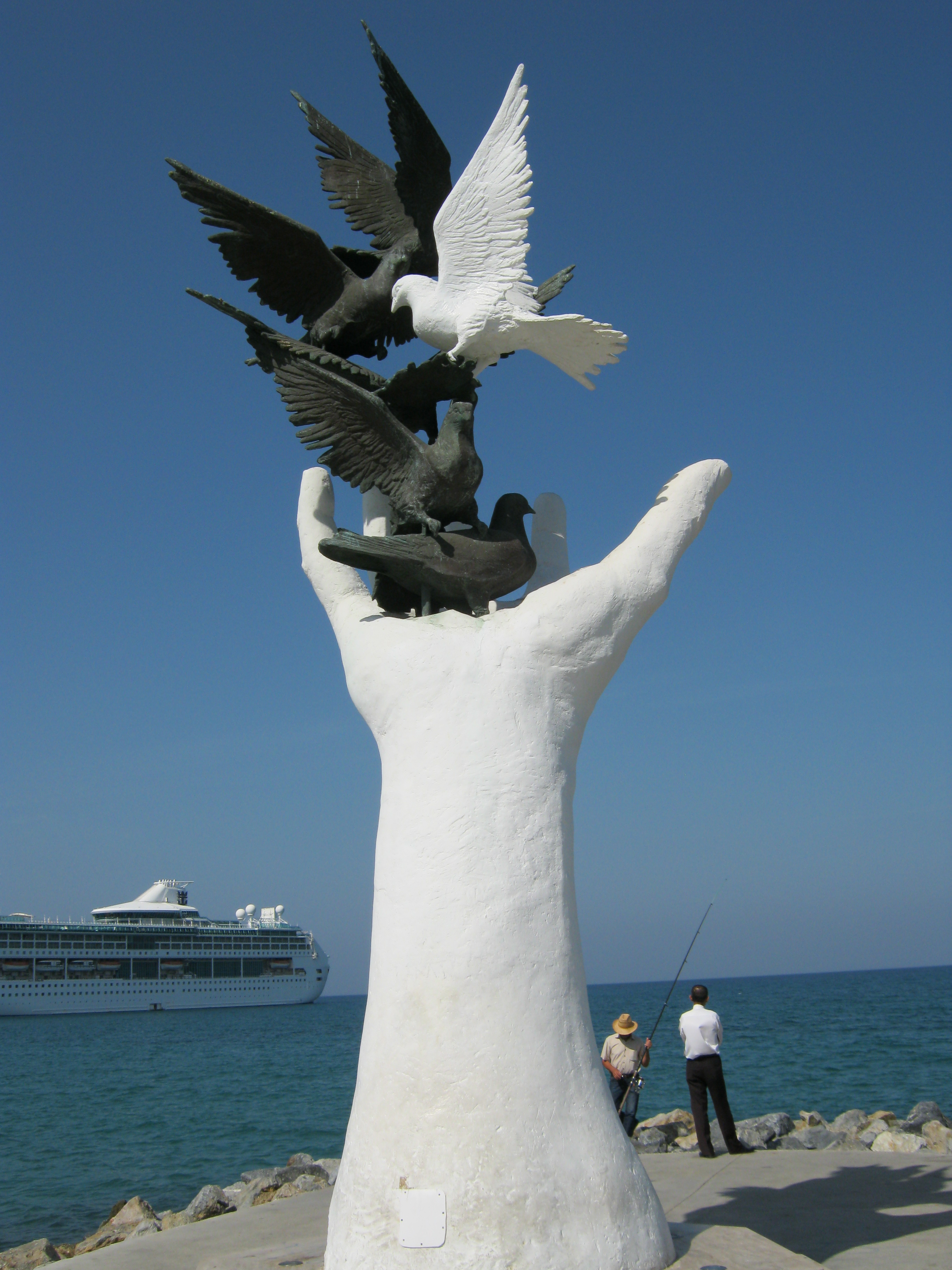 Symbol of Kusadasi